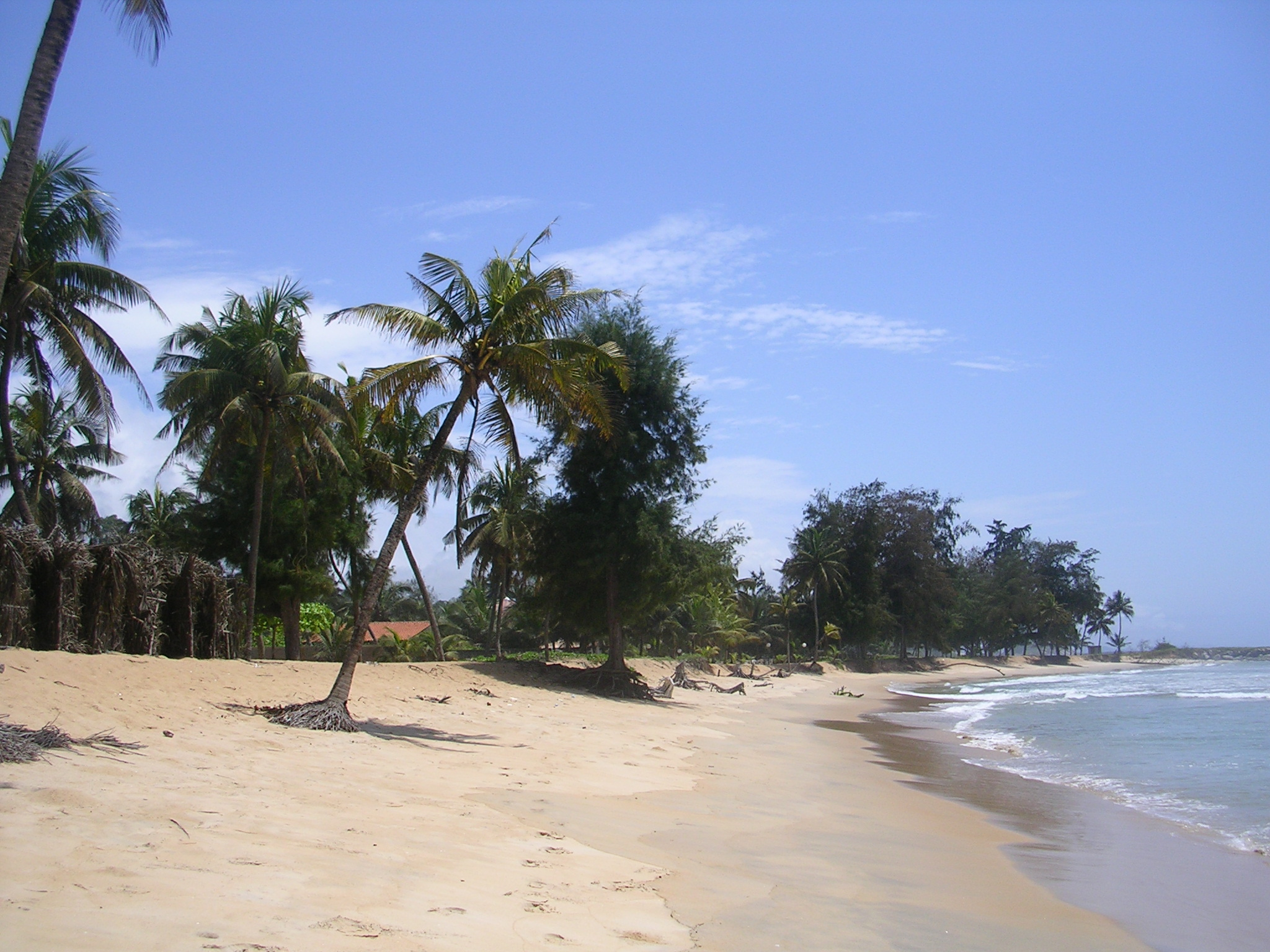 Beach in San Pédro.